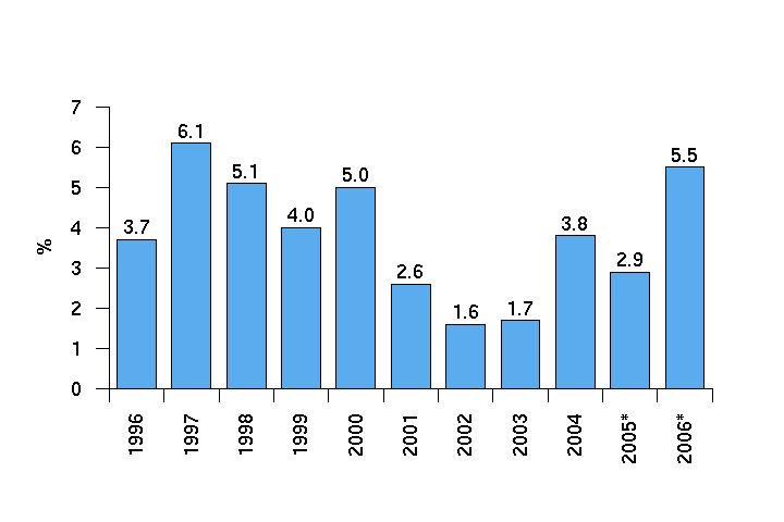 Annual change in the real GDP of Finland (asterix denotes preliminary information)